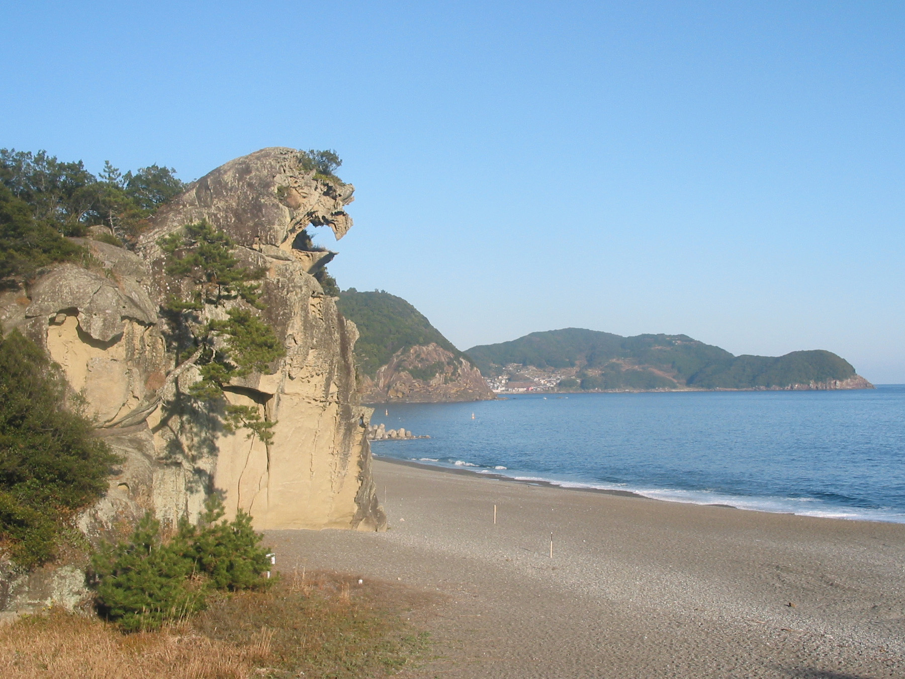 "Shishiiwa" (left huge rock like a lion),"Onigajō" (center: back of the rock), and "Shichirimihama" (right beach) of Sacred Sites and Pilgrimage Routes in the Kii Mountain RangeI took this image. 世界遺産紀伊山地の霊場と参詣道に登録されている獅子岩（左）鬼ヶ城（中央奥）と七里御浜（右） 三重県熊野市井戸町で撮影。